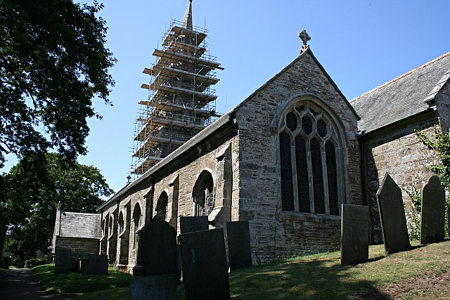 St Minver Church. This church is actually dedicated to Saint Menefreda, from which the name of the parish, Minver, is derived. As you can see the tower is undergoing restoration.